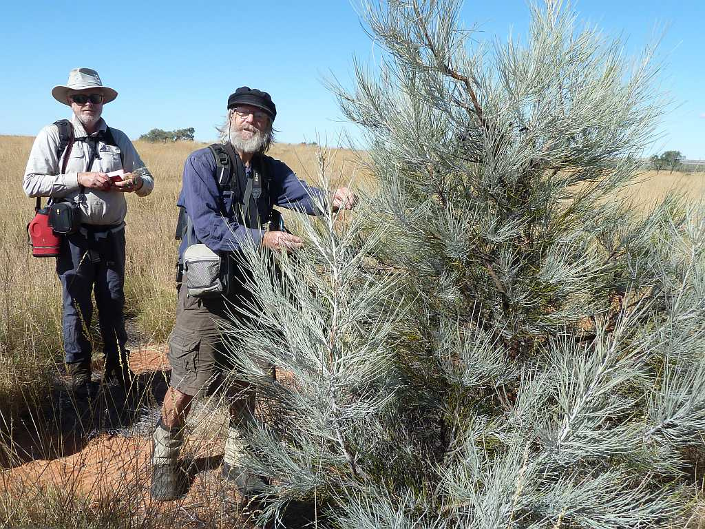 Day 6 - Photo 20: Grevillea juncifolia